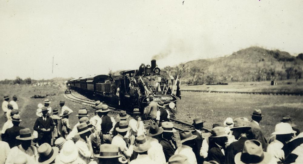 Greeting the officials train at Mount Isa, western Queensland Train pulling in to the Mount Isa Railway Station bedecked with flags and carrying the official visitors.